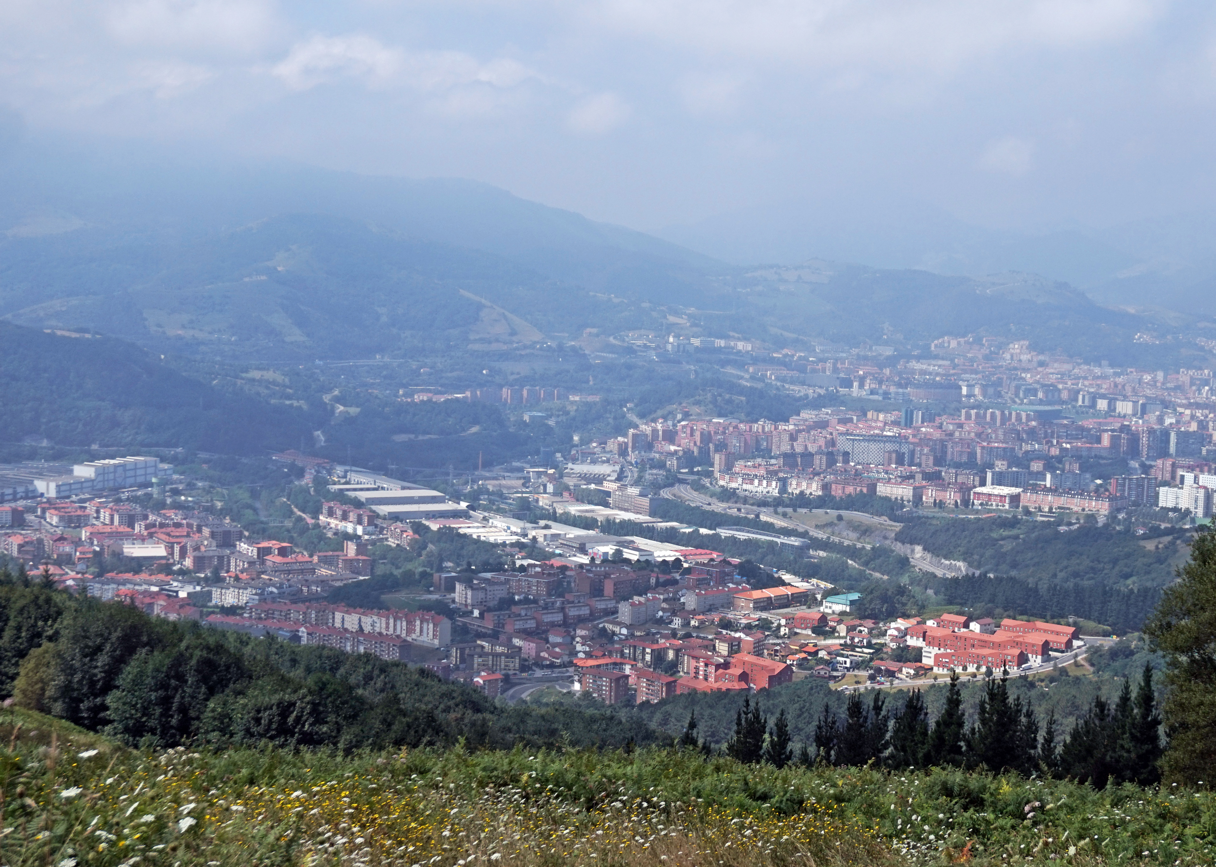 Etxebarri This photograph was taken with a Sony Alpha a5000.